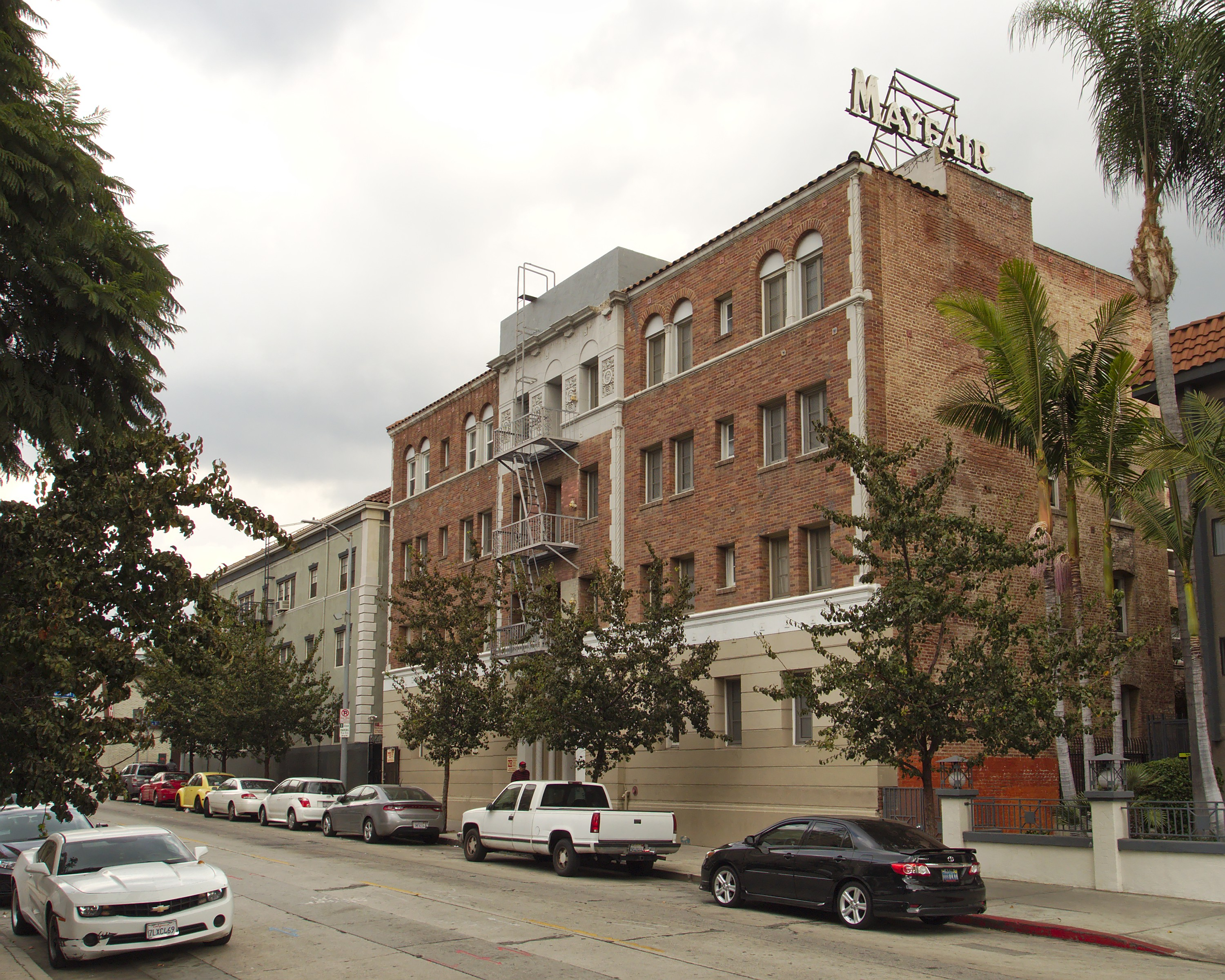 Mayfair Apartments and Rooftop Neon Sign, 1760 North Wilcox Avenue, Los Angeles Historic-Cultural Monument 867, viewed from the southwest.